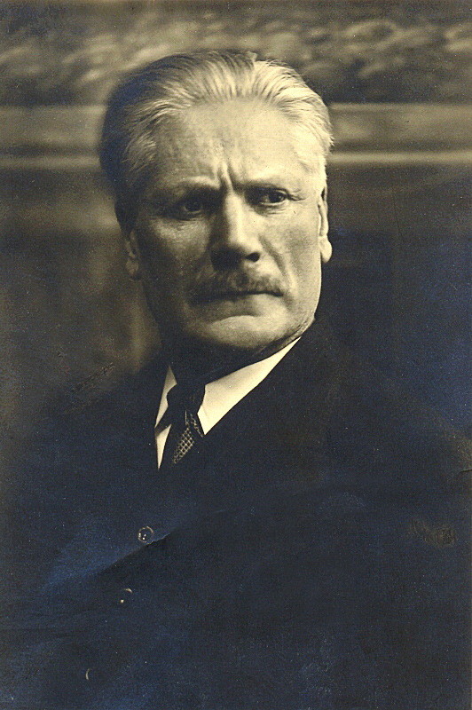 Heinrich Pëus (* 24. July 1862 in Elberfeld; † 10. April 1937 in Dessau) German politician (SPD)